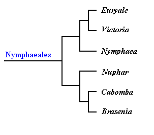 Description: The cladogram of Nymphaeales Source: self-made, upon some research papers